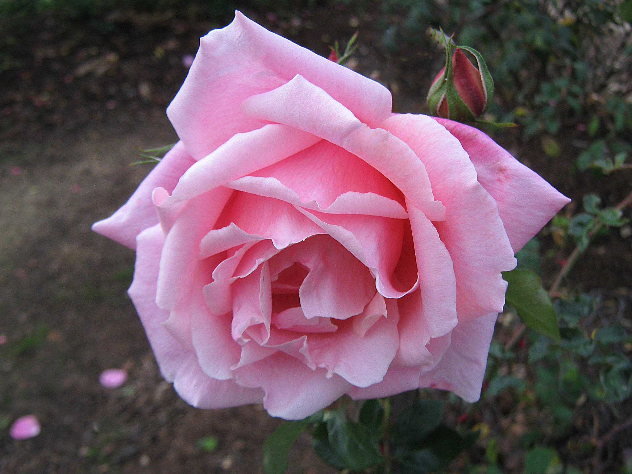 Rose 'Lady Woodward' Riethmuller 1959 hybrid tea; photographed in the Nieuwesteeg Heritage Rose Garden, Maddingley Park, Bacchus Marsh, Victoria